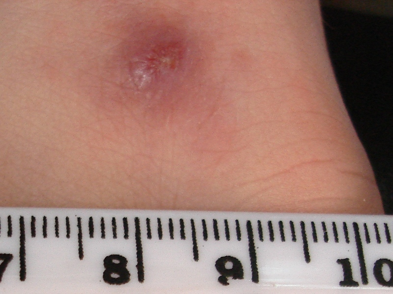 Uncomplicated cutaneous leishmaniasis due to Leishmania tropica (foot).